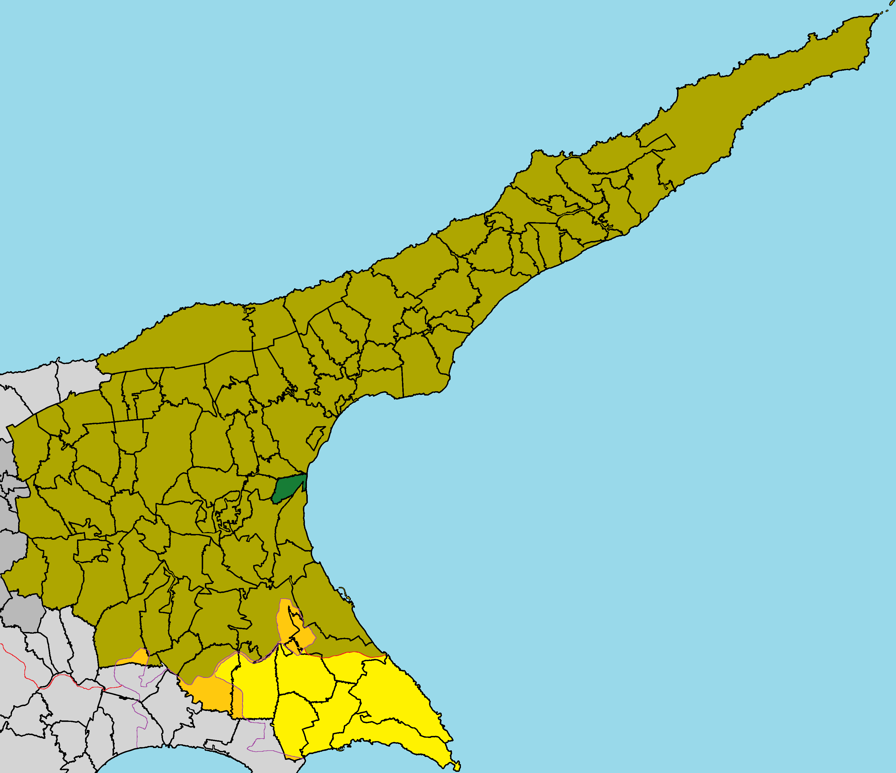 Spathariko in Famagusta District (de jure).